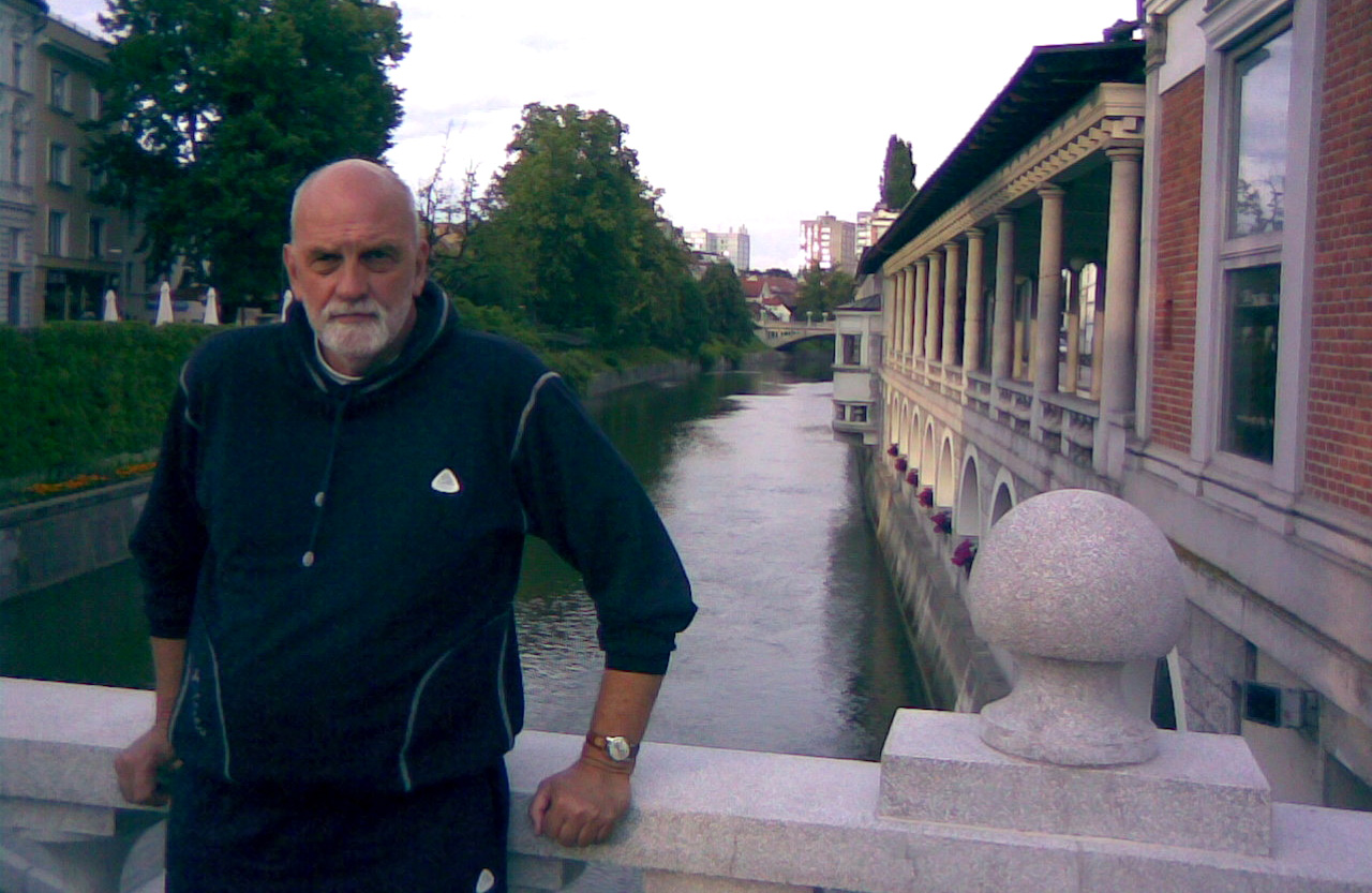 Duci Simonović in Ljubljana.